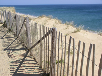 Photo by Matthew A. Lynn